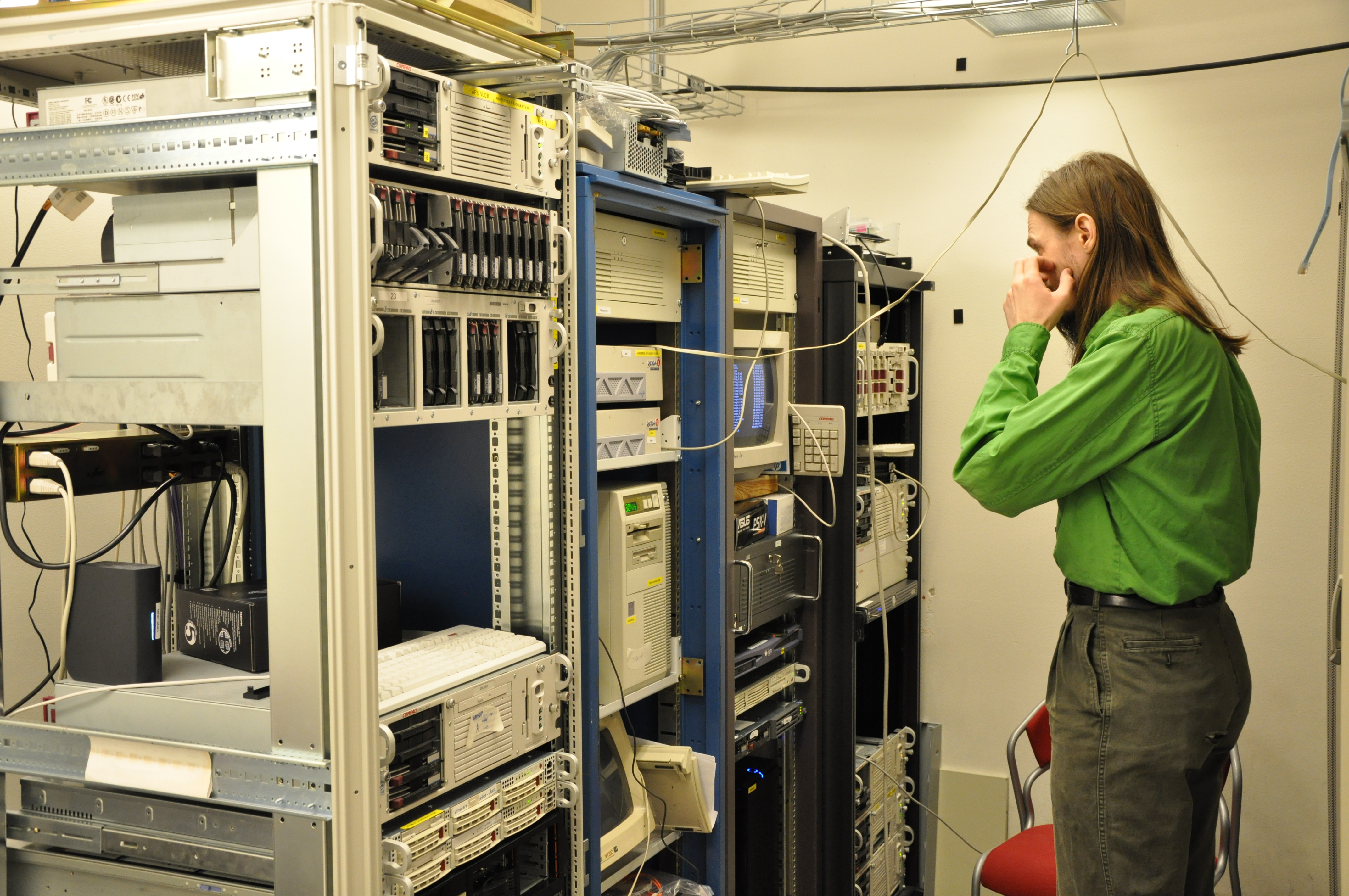 Computer room at Stacken